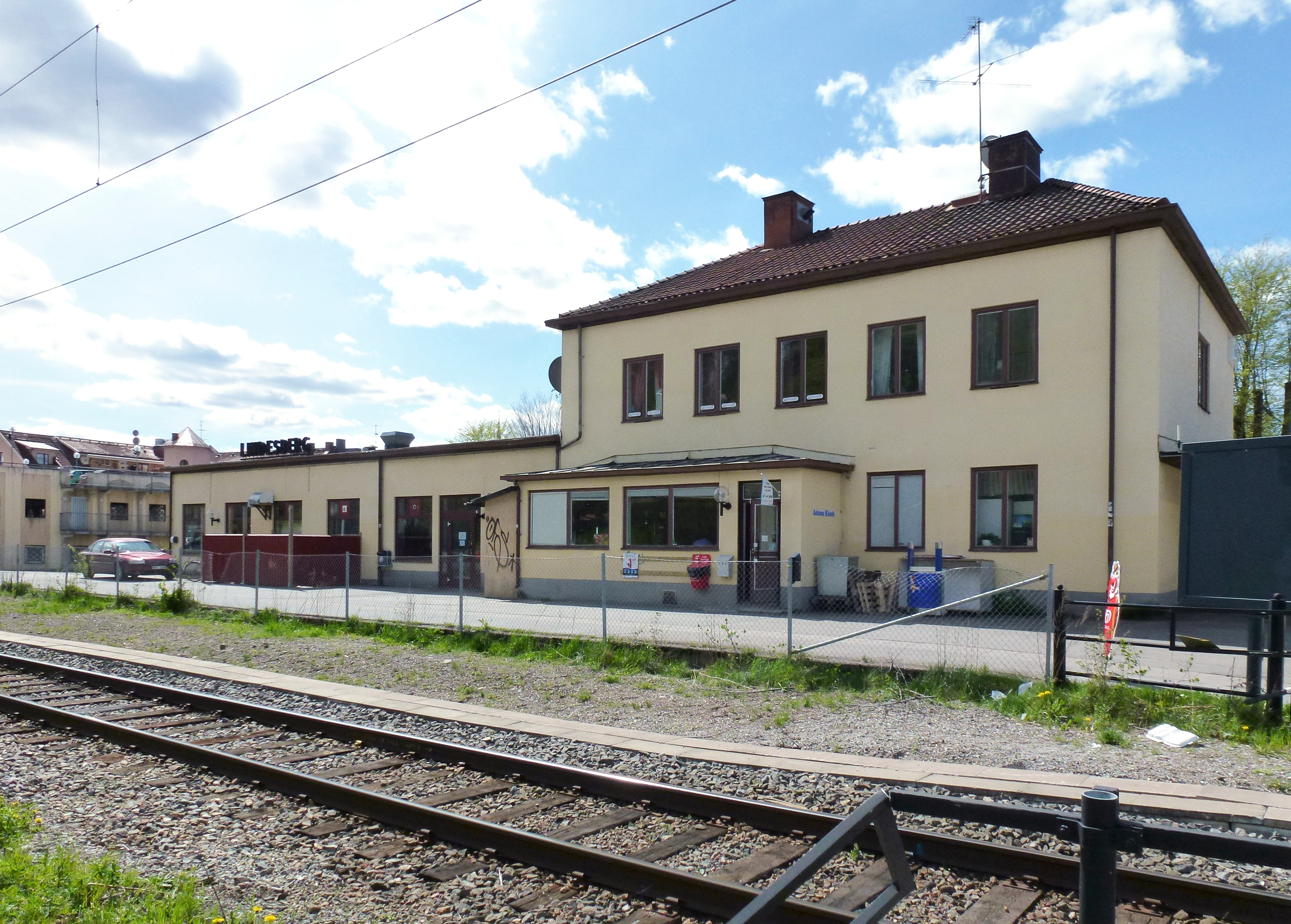 Railway station Lindesberg, Örebro County, Sweden